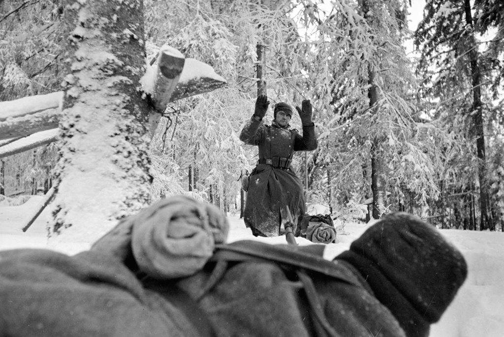 “A Nazist surrenders”. A Nazi soldier going out of the forest with his hands in the air.